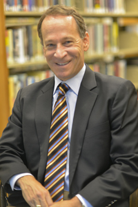 Gary M. Pomerantz at Mill Valley Public Library